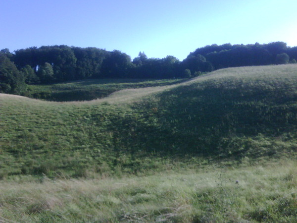 Toteiskessel bei Wildenroth